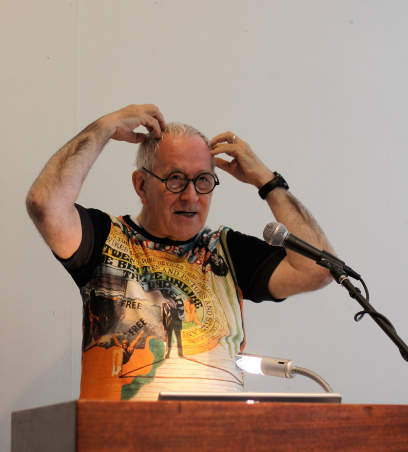 Peter Cook from Archigram, Architects Association (Photo taken in St Giles's, London)